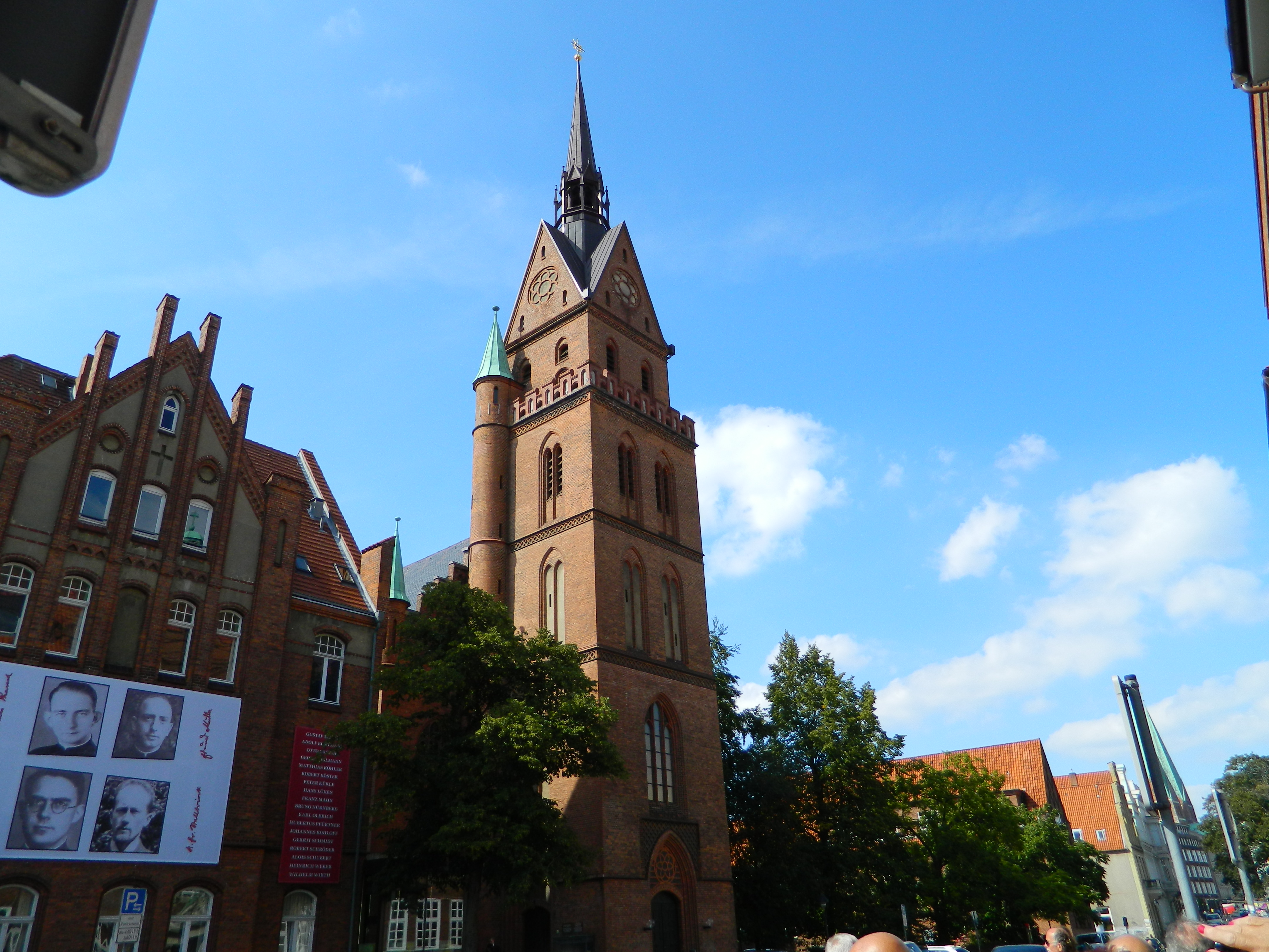 Lübeck, Catholic Church "Sacred Heart of Jesus". Place of memory for the martyrs of Lübeck.